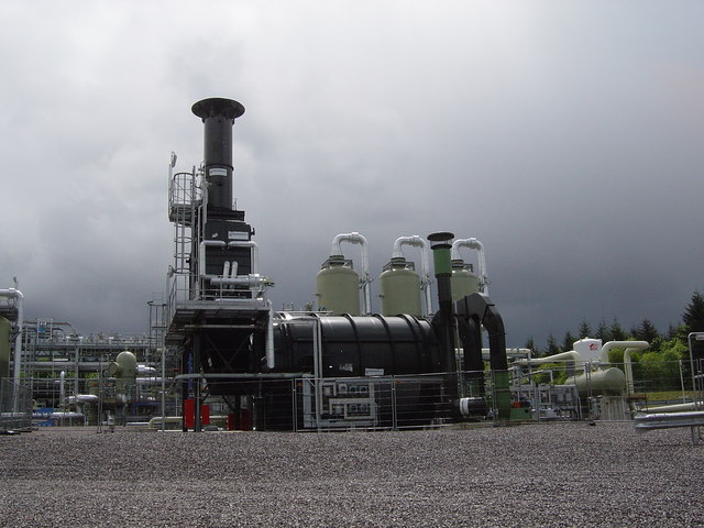 Natural gas facility, hidden in Weston Common, near Alton